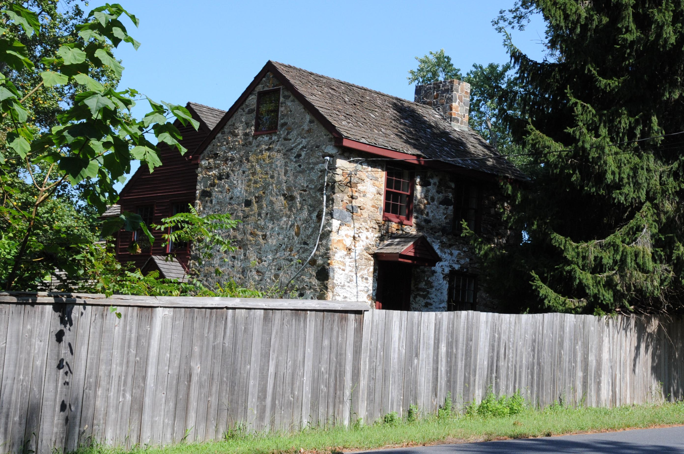 THE DISTRICT WAS CENTERED AROUND THE SAMUEL GRAVES SAW MILL WHICH DEVELOPED IN THE MID 19TH CENTURY. ONE OF TWO ARMSTRONG HOUSES IN THE DISTRICT. THESE HOUSES WERE ORIGINALLY DESCRIBED IN RUINED CONDITION IN THE NOMINATION BUT NOW APPEAR TO BE REFURBISHED AND LIVED IN